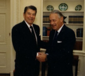 Ronald Reagan and Chester E. Norris in Oval Office